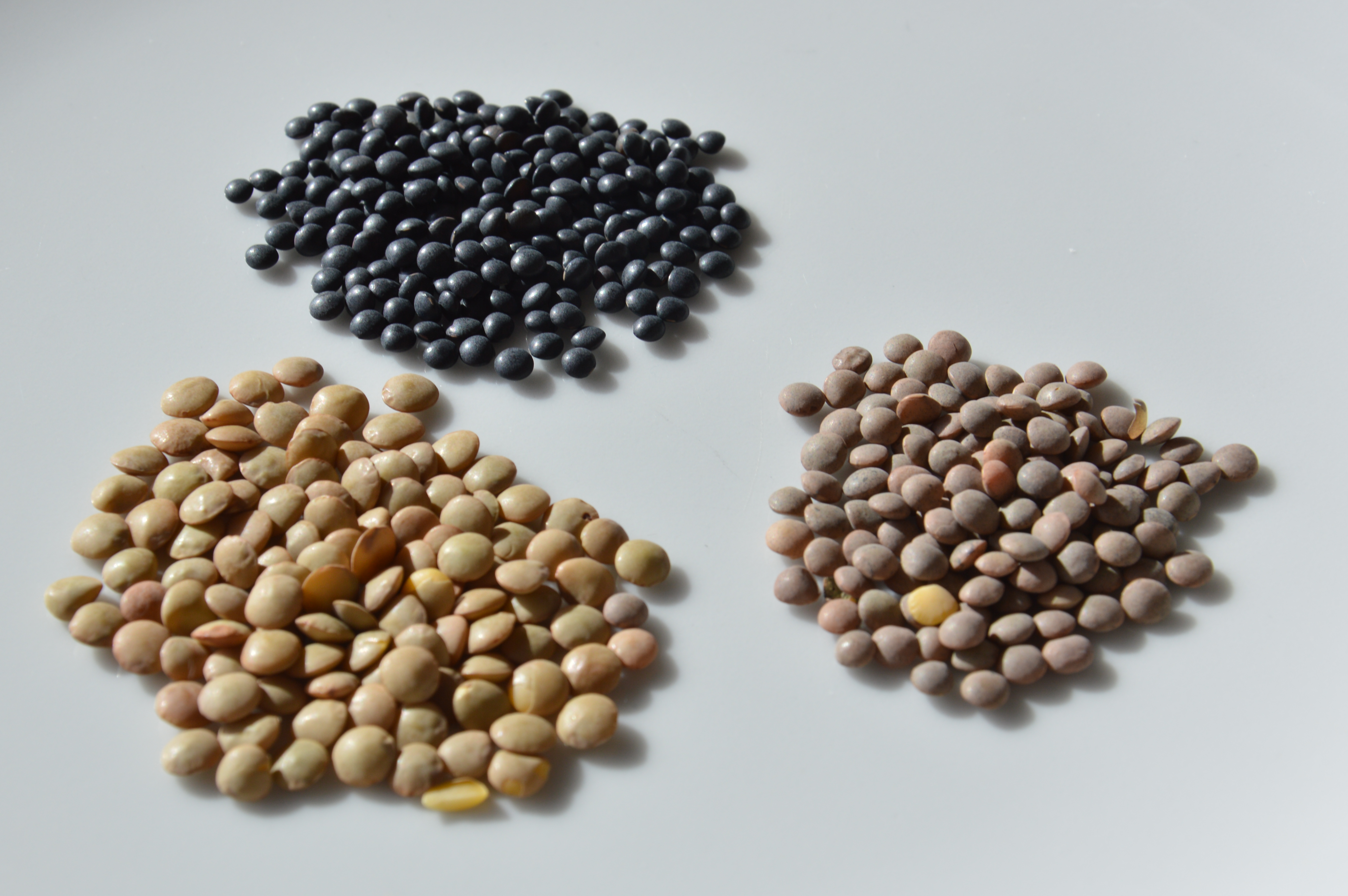 A mix of lentils. Fairly large, light Brown lentils at on the left; the slightly smaller brown Pardina lentils on the right; and smaller black Beluga lentils at the rear.